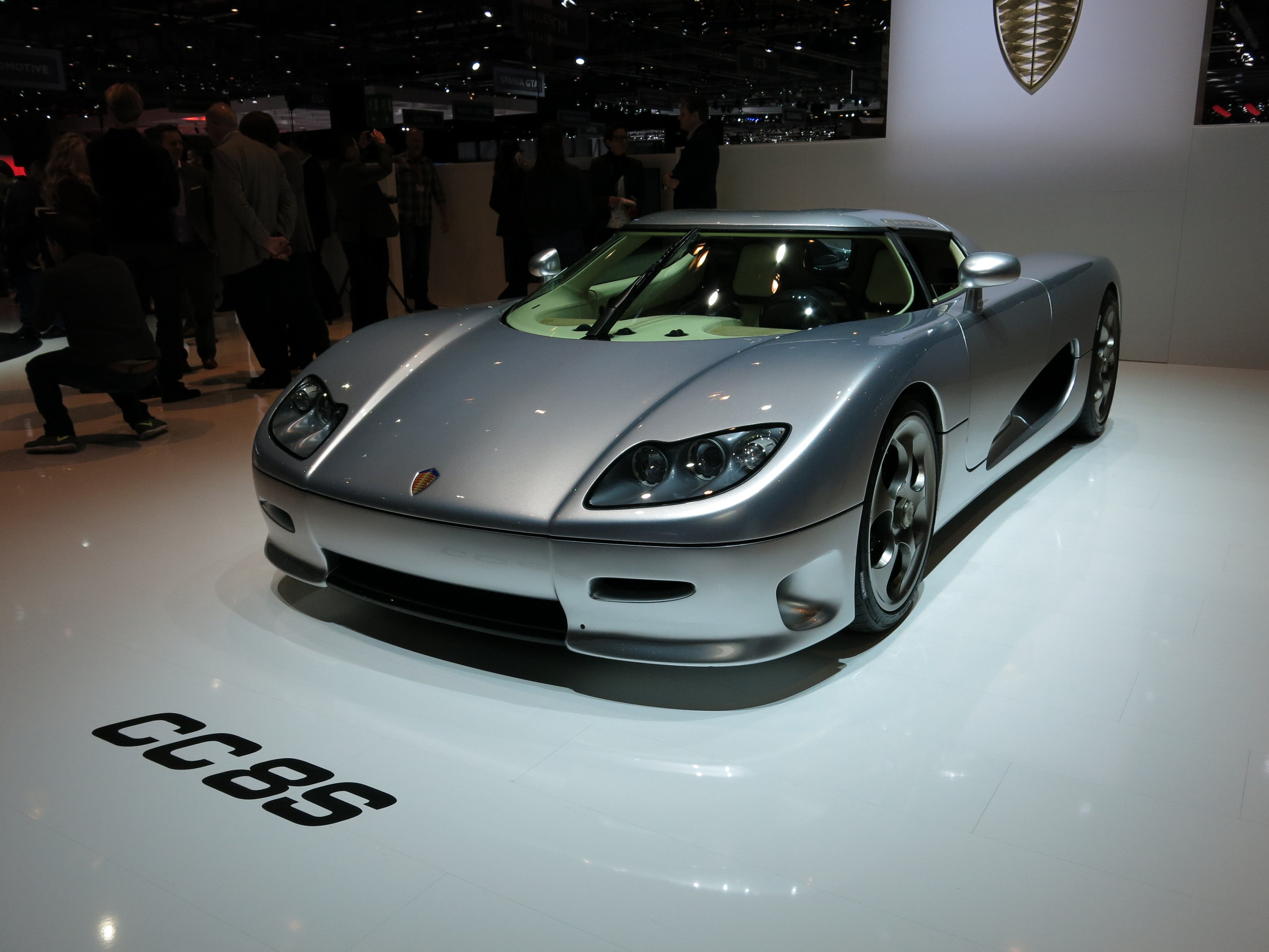 Geneva Motor Show 2015 (photo taken on the first press day)